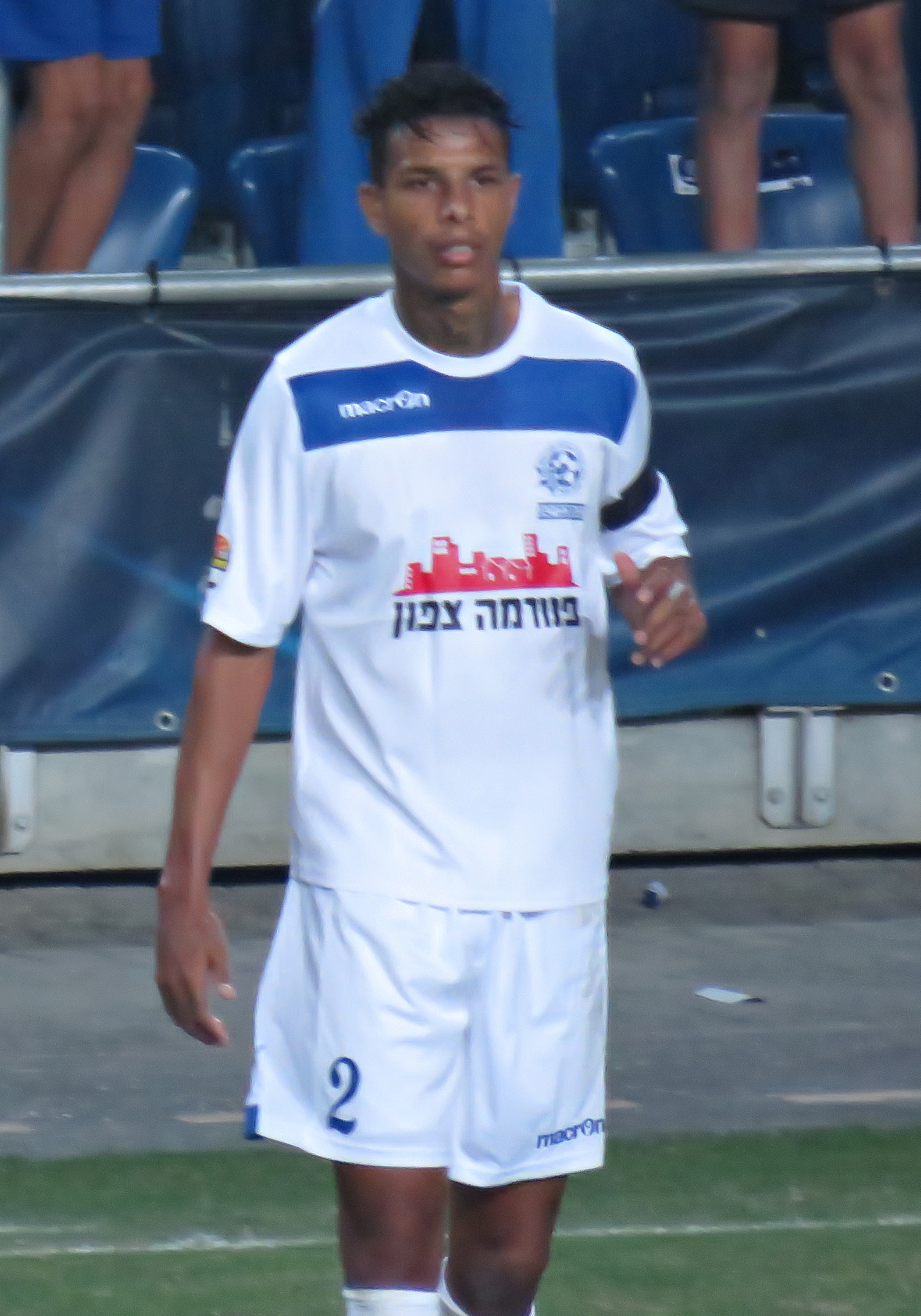 Maccabi Petah Tikva F.C. vs. Maccabi Haifa F.C., 31 October, 2015